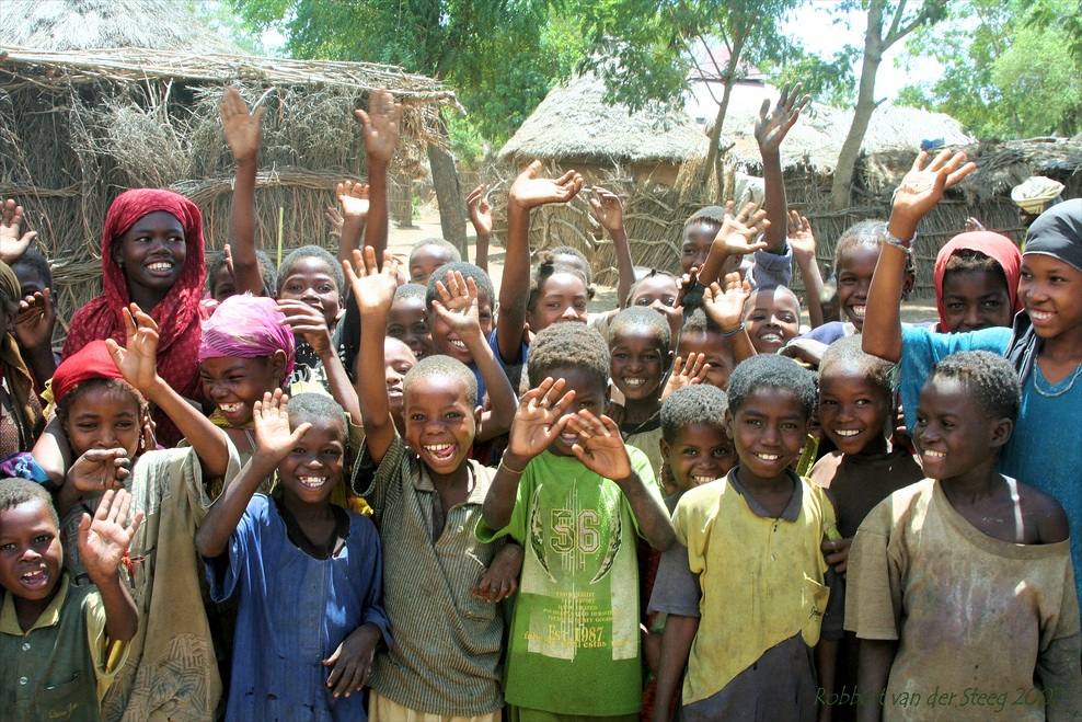 Bantu children near Jowhar in Somalia. Original description: When in Somalia, we were working on some breakages in river embankments (on the Shabelle River). The children always were watching closely. In the end they wanted a picture, they looked a bit afraid till I told them to wave. Some faces really look great I think.